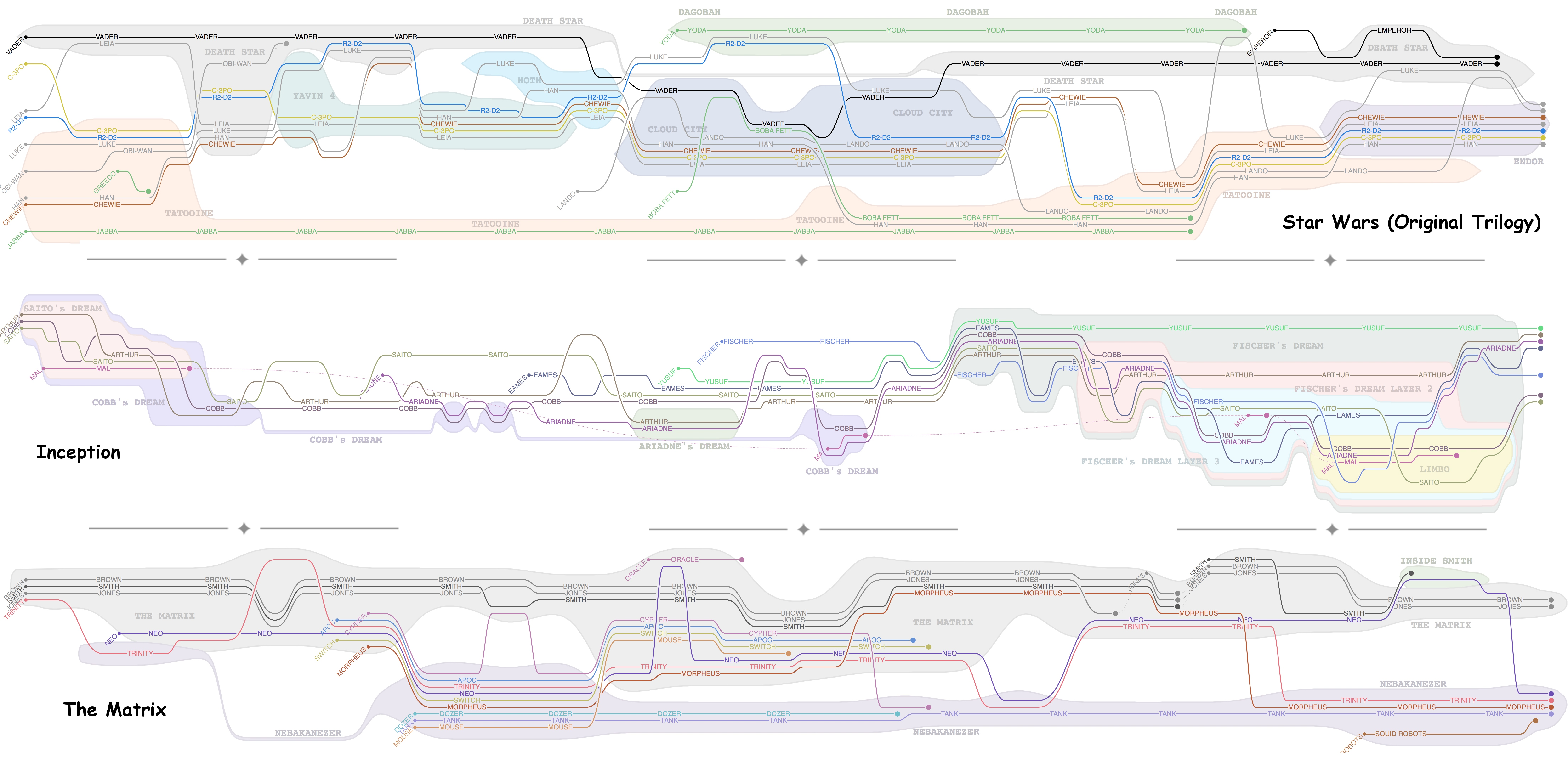 Visualization created by Yuzuru Takahashi